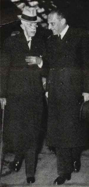 The envoy in Paris, Erik Boheman, receives King Gustaf on his arrival in the French capital during the return journey from the Riviera.